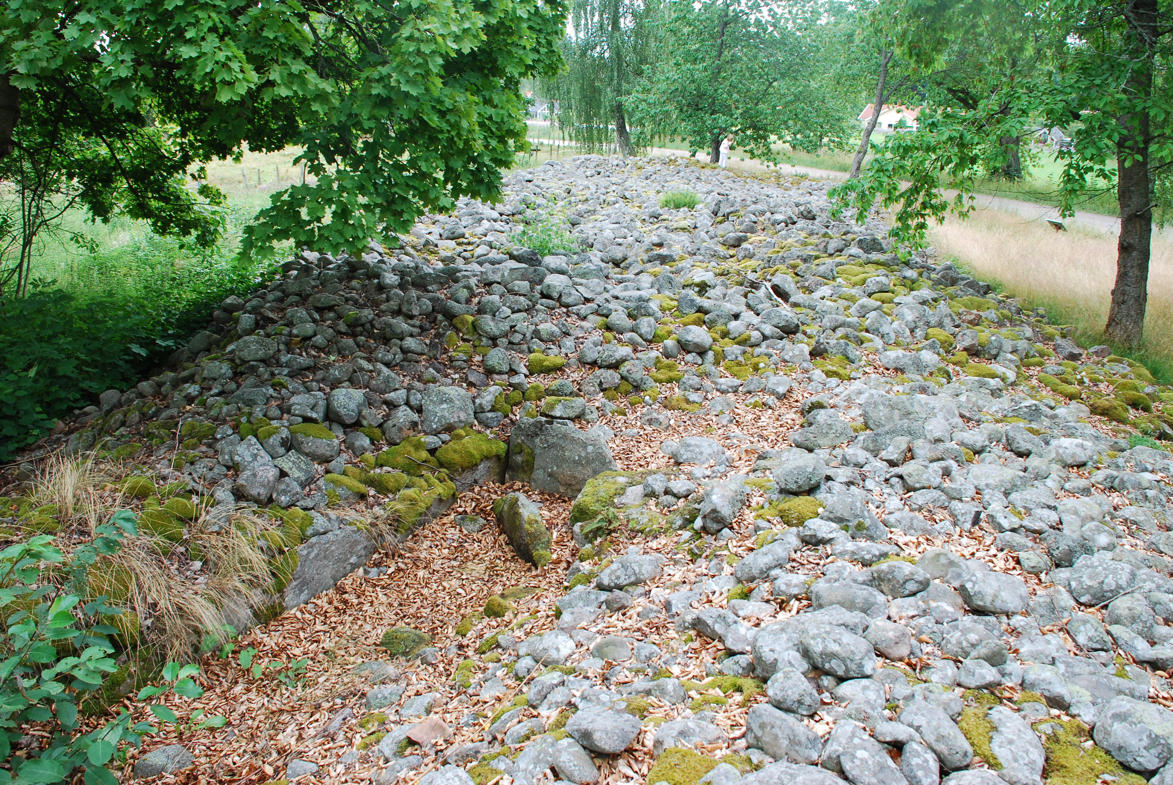 Långarör dates from the Bronze Age, 1800-1000 B.C. It is 60 meters long. The photograph shows in the front some flat slabs that make up a five meter long cist in the middle of the barrow.